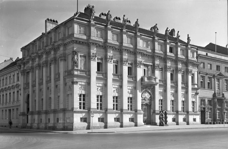 Potsdam.- Kommandantur Information added by Wikimedia users.